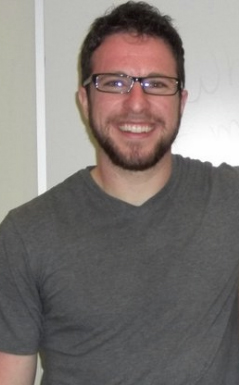 Ryan Sallans, April 2011